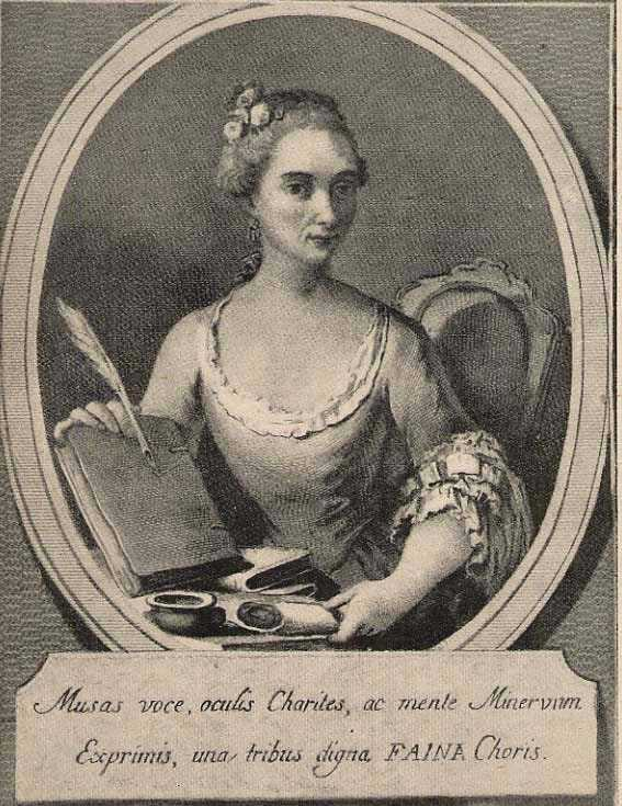 Diamante Medaglia Faini (1724-1770), italian poetess